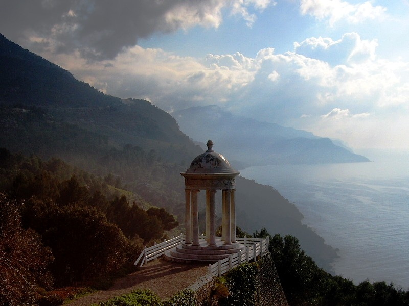 Son Marroig - Mallorca - Spain